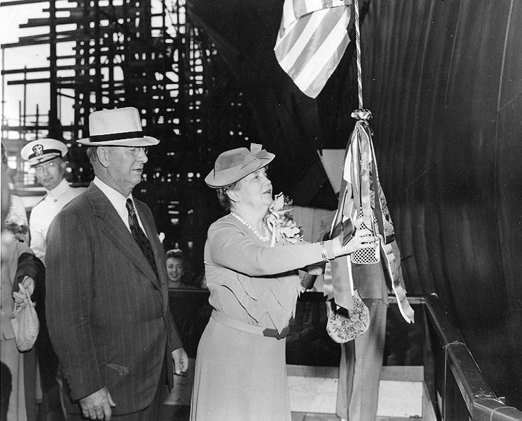 Secretary of the Navy Frank Knox and Mrs. Annie Reid Knox, the ship's sponsor, at Hornet's christening ceremonies, 30 August 1943. The carrier was built at the Newport News Shipbuilding and Dry Dock Company shipyard, Newport News, Virginia.